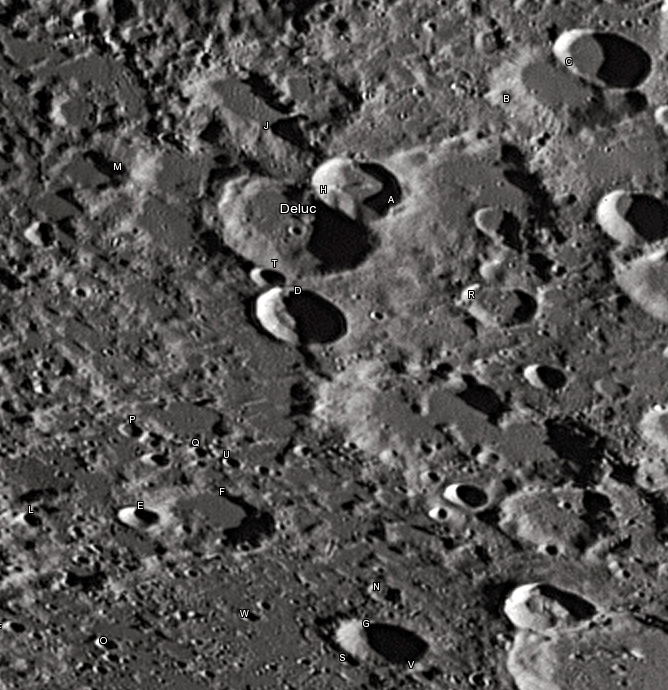 Deluc lunar crater as seen from Earth with satellite craters labeled